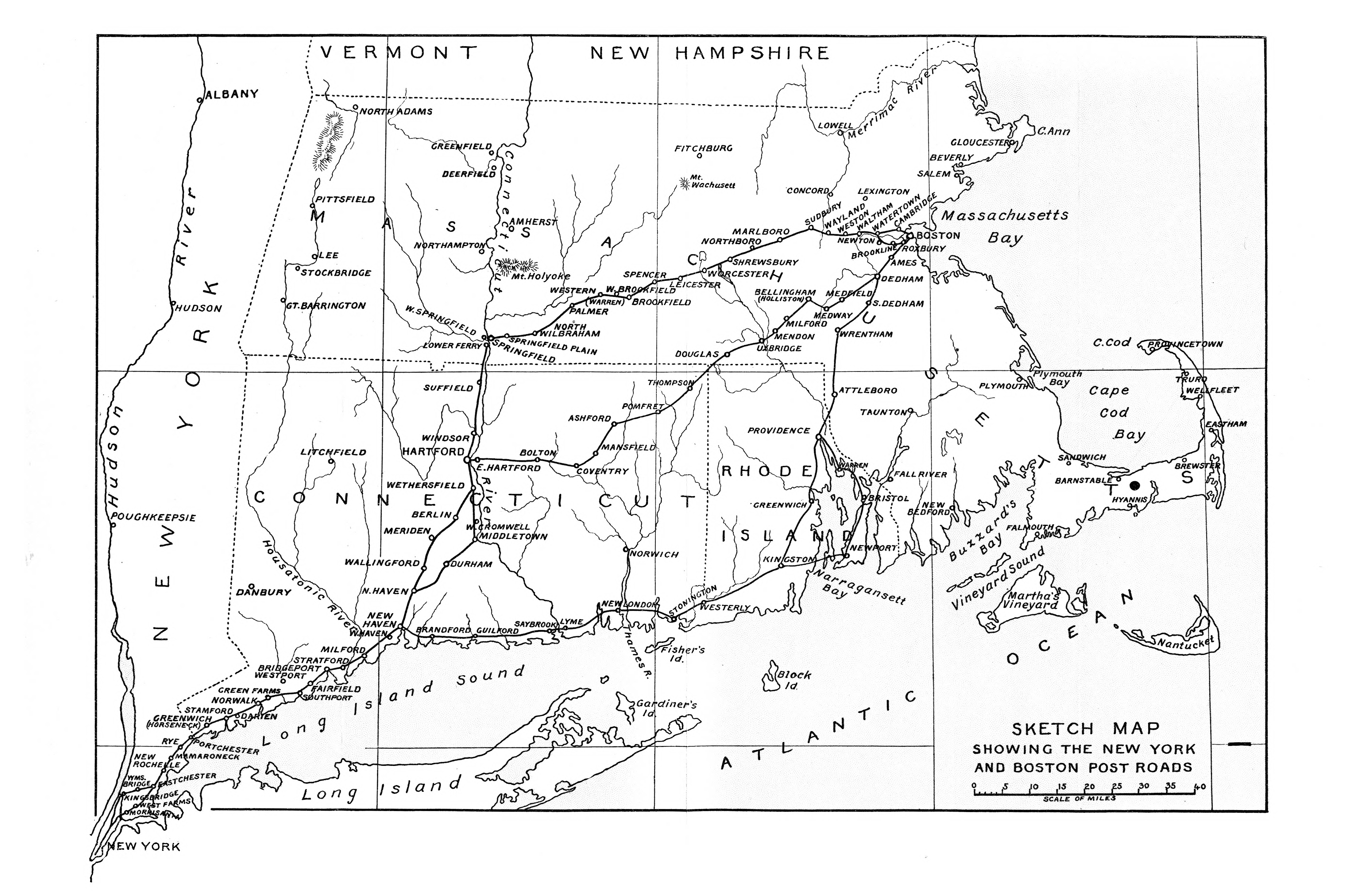 Map of the various alignments of the Boston Post Road. Scanned from S. Jenkins, The old Boston Post Road, (G.P. Putnam and Sons, New York and London, 1914)